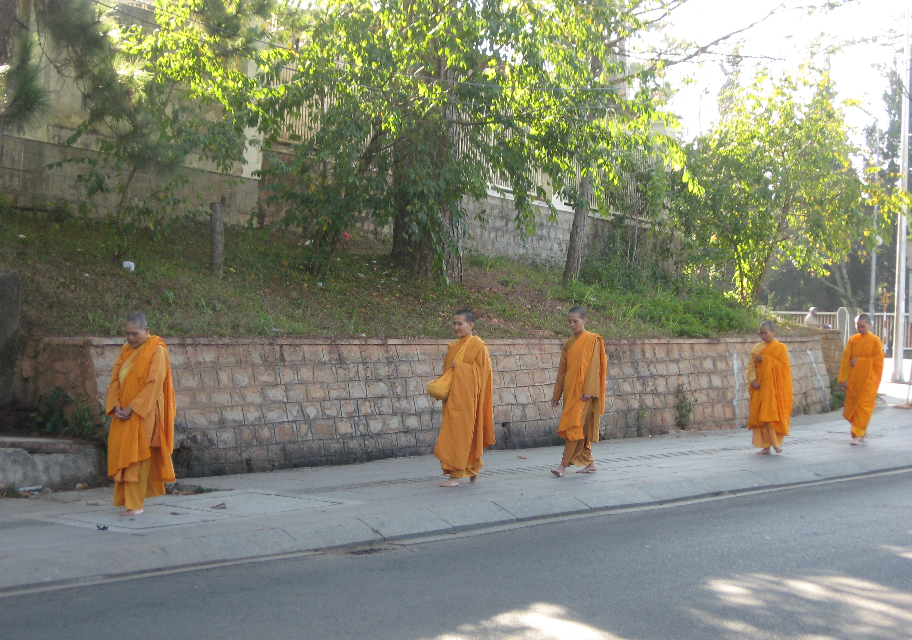 Monks in the Morning, Da Lat